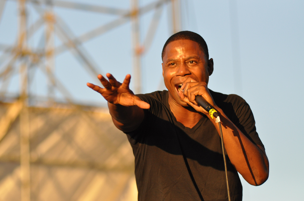 Doug E. Fresh at the Williamsburg Waterfront, Williamsburg, Brooklyn, August 29, 2010